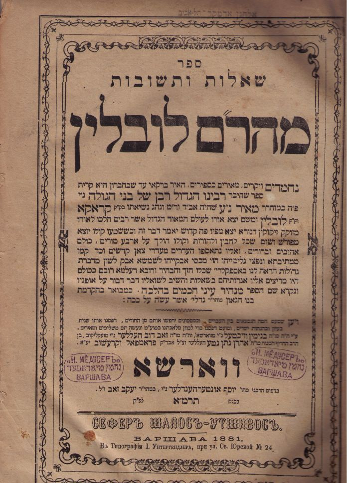 Divrei Shaul by Rabbi Natanzon This work or image is now in the public domain because its term of copyright has expired in Israel (details). According to Israel's copyright statute from 2007 (translation), a work is released to the public domain on 1 January of the 71st year after the author's death (paragraph 38 of the 2007 statute) with the following exceptions: A photograph taken on 24 May 2008 or earlier — the old British Mandate act applies, i.e. on 1 January of the 51st year after the creation of the photograph (paragraph 78(i) of the 2007 statute, and paragraph 21 of the old British Mandate act). If the copyrights are owned by the State, not acquired from a private person, and there is no special agreement between the State and the author — on 1 January of the 51st year after the creation of the work (paragraphs 36 and 42 in the 2007 statute). See also category: PD Israel & British Mandate. This work or image is now in the public domain because its term of copyright has expired in Israel (details). According to Israel's copyright statute from 2007 (translation), a work is released to the public domain on 1 January of the 71st year after the author's death (paragraph 38 of the 2007 statute) with the following exceptions: A photograph taken on 24 May 2008 or earlier — the old British Mandate act applies, i.e. on 1 January of the 51st year after the creation of the photograph (paragraph 78(i) of the 2007 statute, and paragraph 21 of the old British Mandate act). If the copyrights are owned by the State, not acquired from a private person, and there is no special agreement between the State and the author — on 1 January of the 51st year after the creation of the work (paragraphs 36 and 42 in the 2007 statute). See also category: PD Israel & British Mandate. MAHARAM LUBLIN RESPONSA